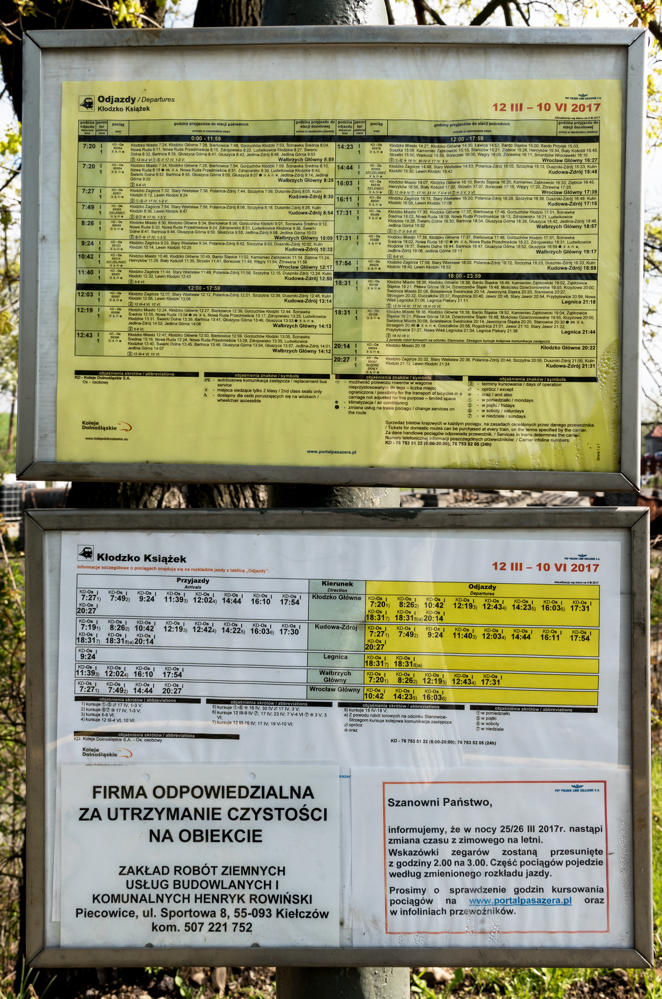 Kłodzko Książek railway station, timetable